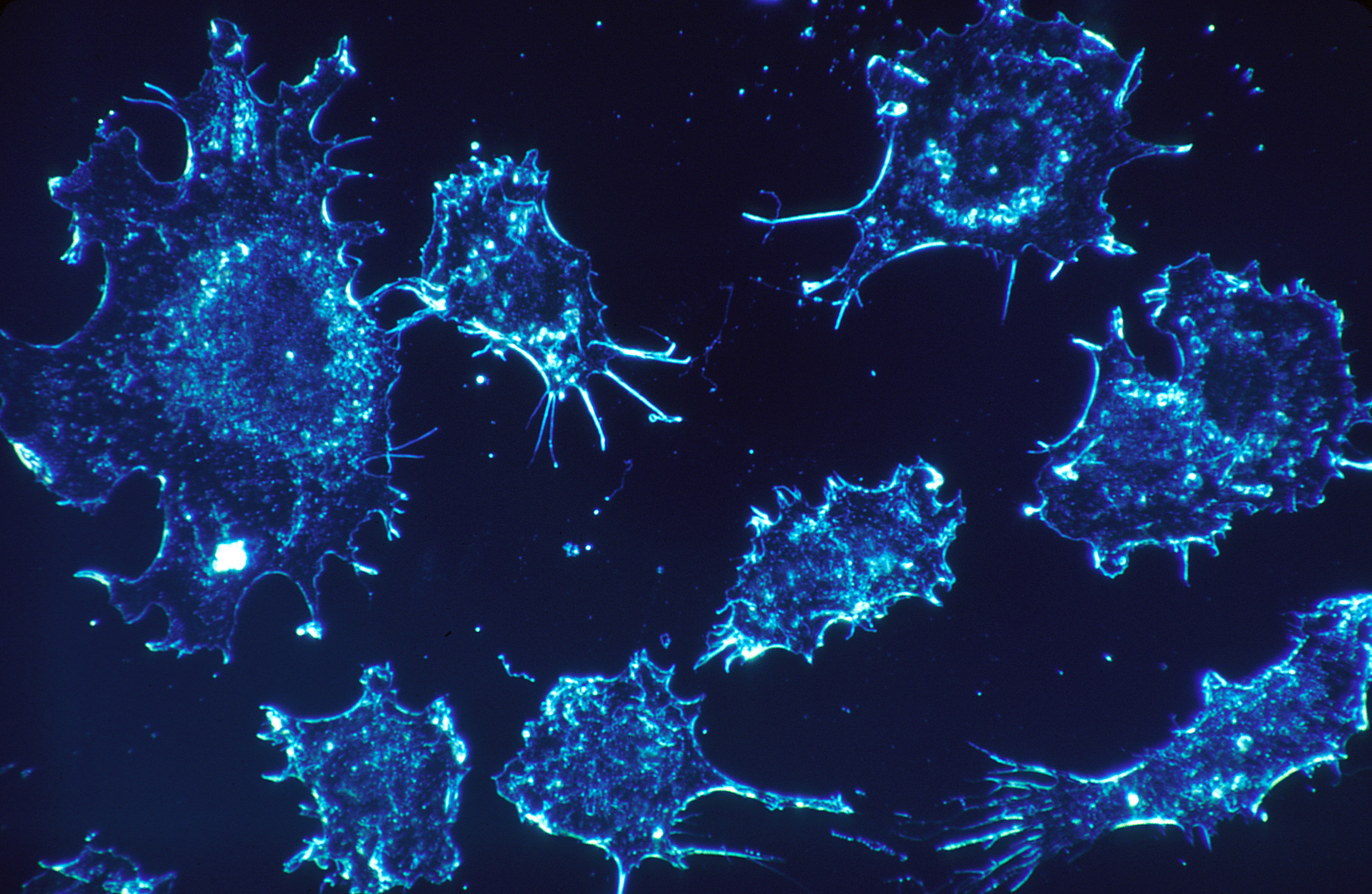 Title Cancer Cells Description Cancer cells in culture from human connective tissue, illuminated by darkfield amplified contrast, at a magnification of 500x. These cells can be compared to normal cells on: Topics/Categories Cells or Tissue, Abnormal Cells or Tissue Type Color, Photo Source National Cancer Institute